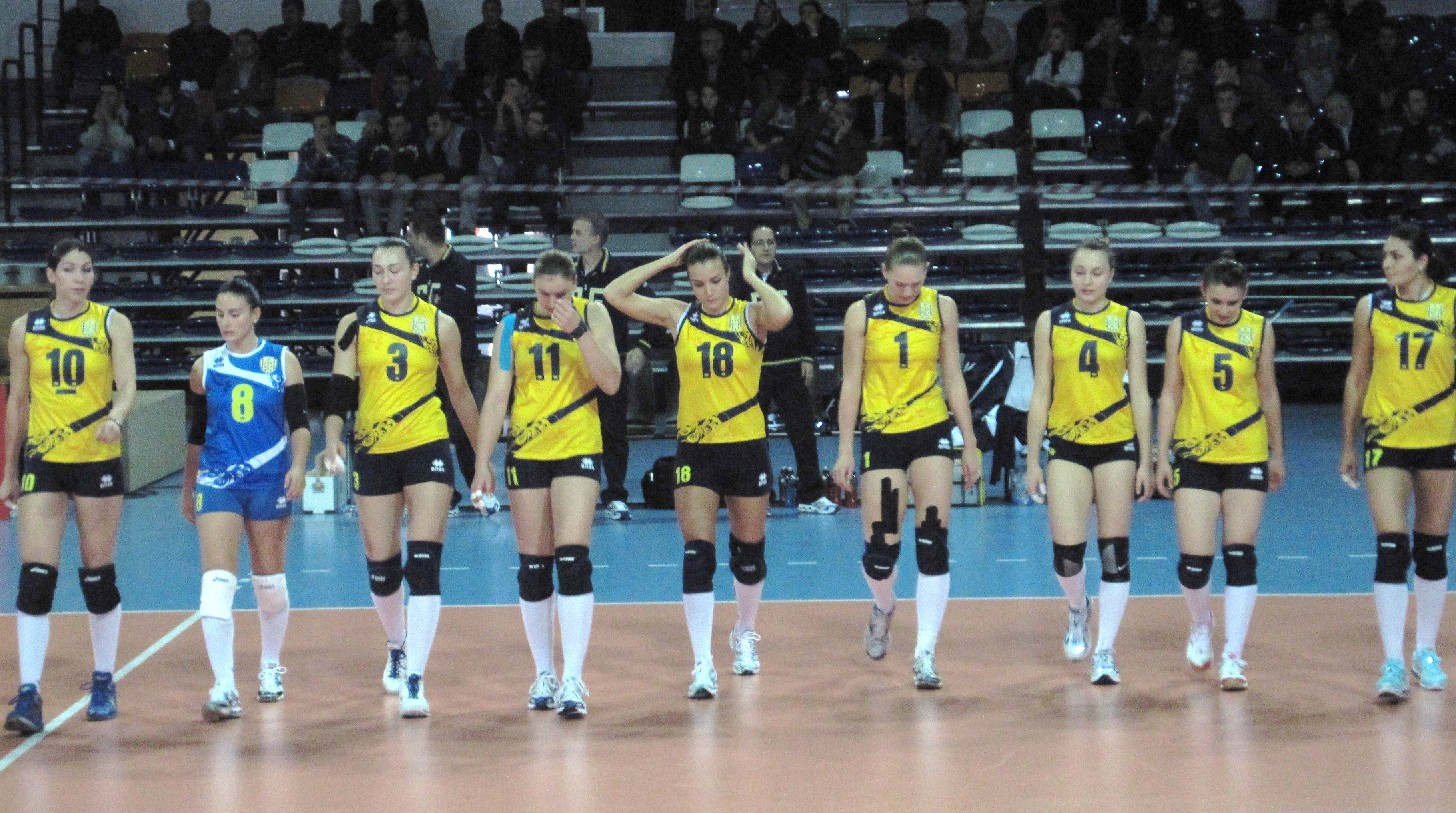 Turkish volleyball team Ankaragücü